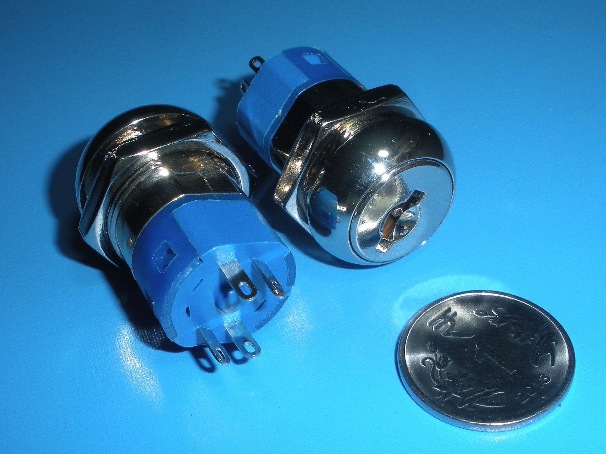 Key Switch